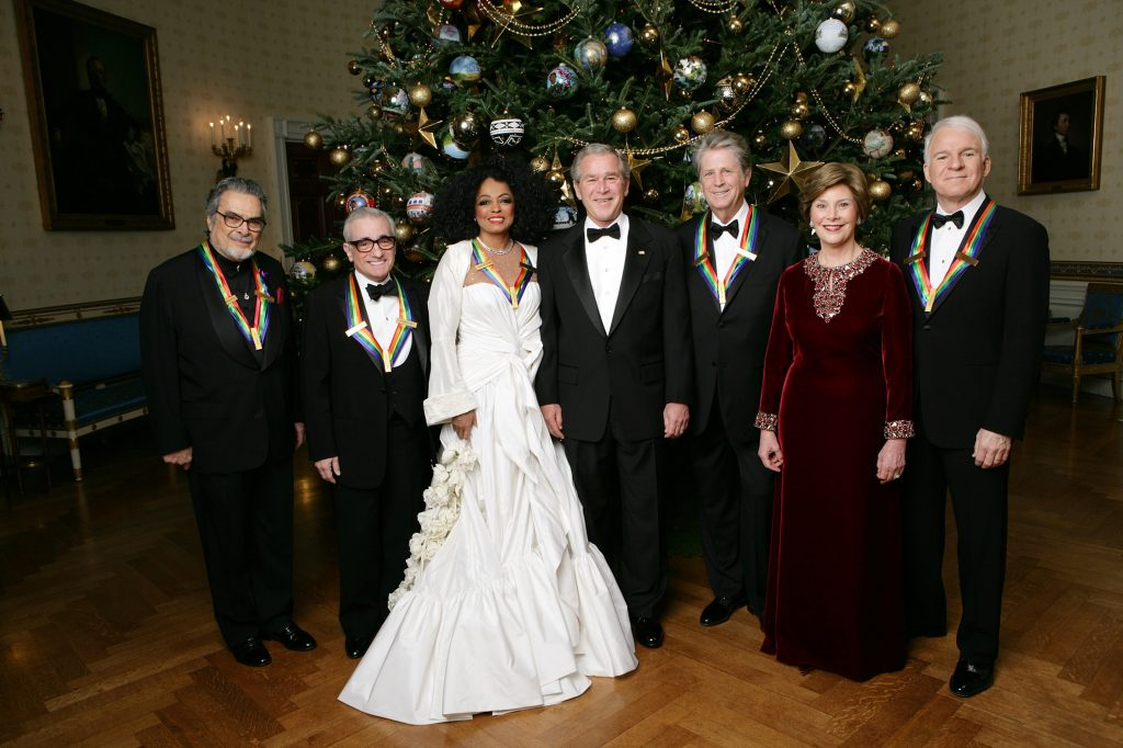 President George W. Bush and Mrs. Laura Bush stand in the Blue Room of the White House Sunday, Dec. 2, 2007, with the Kennedy Center Honorees for 2007, from left: Leon Fleisher, Martin Scorsese, Diana Ross, Brian Wilson and Steve Martin. White House photo by Eric Draper